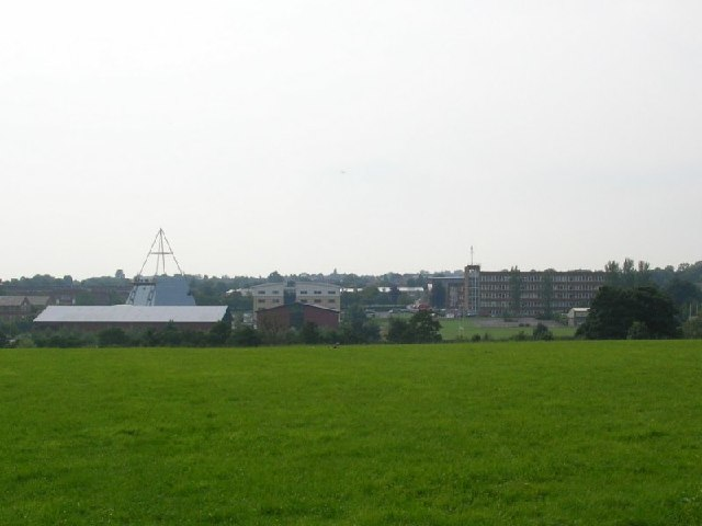 Harrogate College. Taken on a rather hazy day. Harrogate College A block stands on the right, and the glass pyramid [see other images of this square] is on the left.